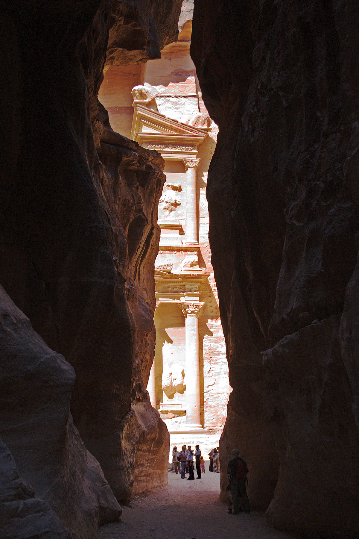 The first glimpse of Petra's Treasury (al-Khazneh) upon exiting the Siq.